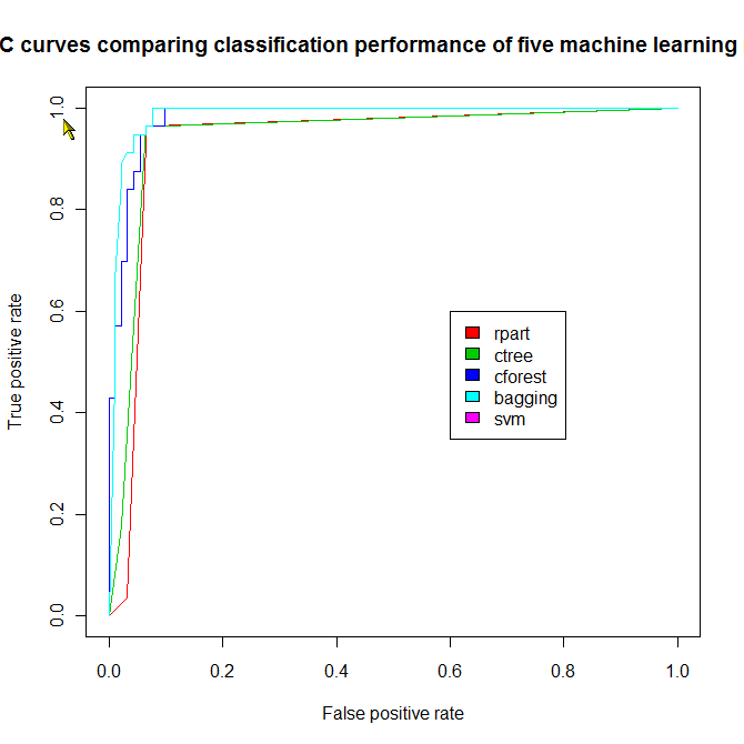 ROC curves comparing classification performance of five machine learning models on breast cancer data